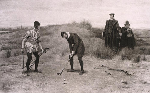 These 2 golfers in J C Dollman's painting 'The Sabbath Breakers' look unpleasantly surprised to be caught golfing on the links by a pair of stern-looking clerics.